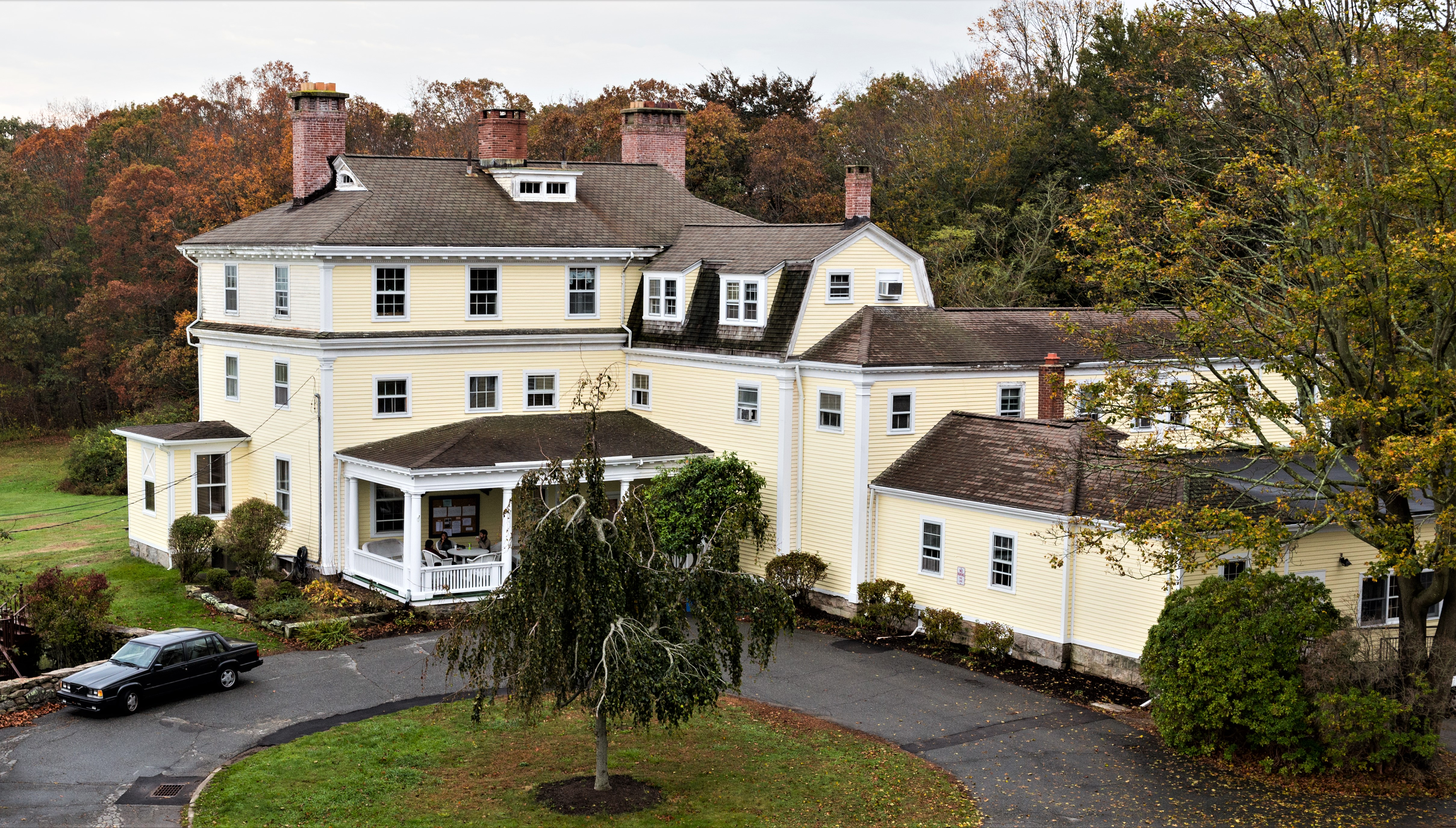 The Hammond Mansion on the Eugene O'Neill Theater Center property, which serves as office space for staff.